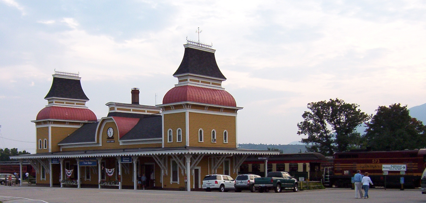 Conway Scenic Railroad station, North Conway, New Hampshire. Built 1874; restored and re-opened 1974.